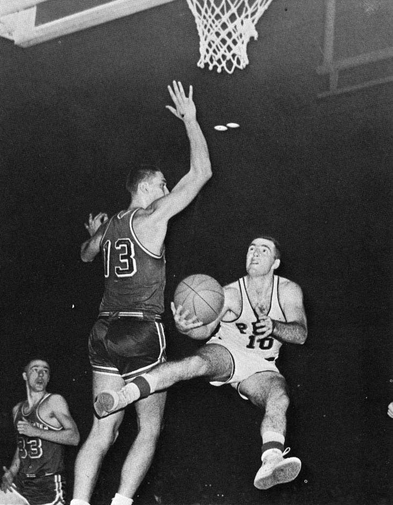 The University of Pittsburgh Panthers basketball All-American Don Hennon drives around Duquesne University's Bob Slobbodnik during a 71-56 Pitt victory in the Steel Bowl tournament on December 13, 1958.